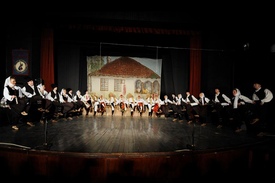 "Timocka Krajina" KUD MLADOST Nova Pazova